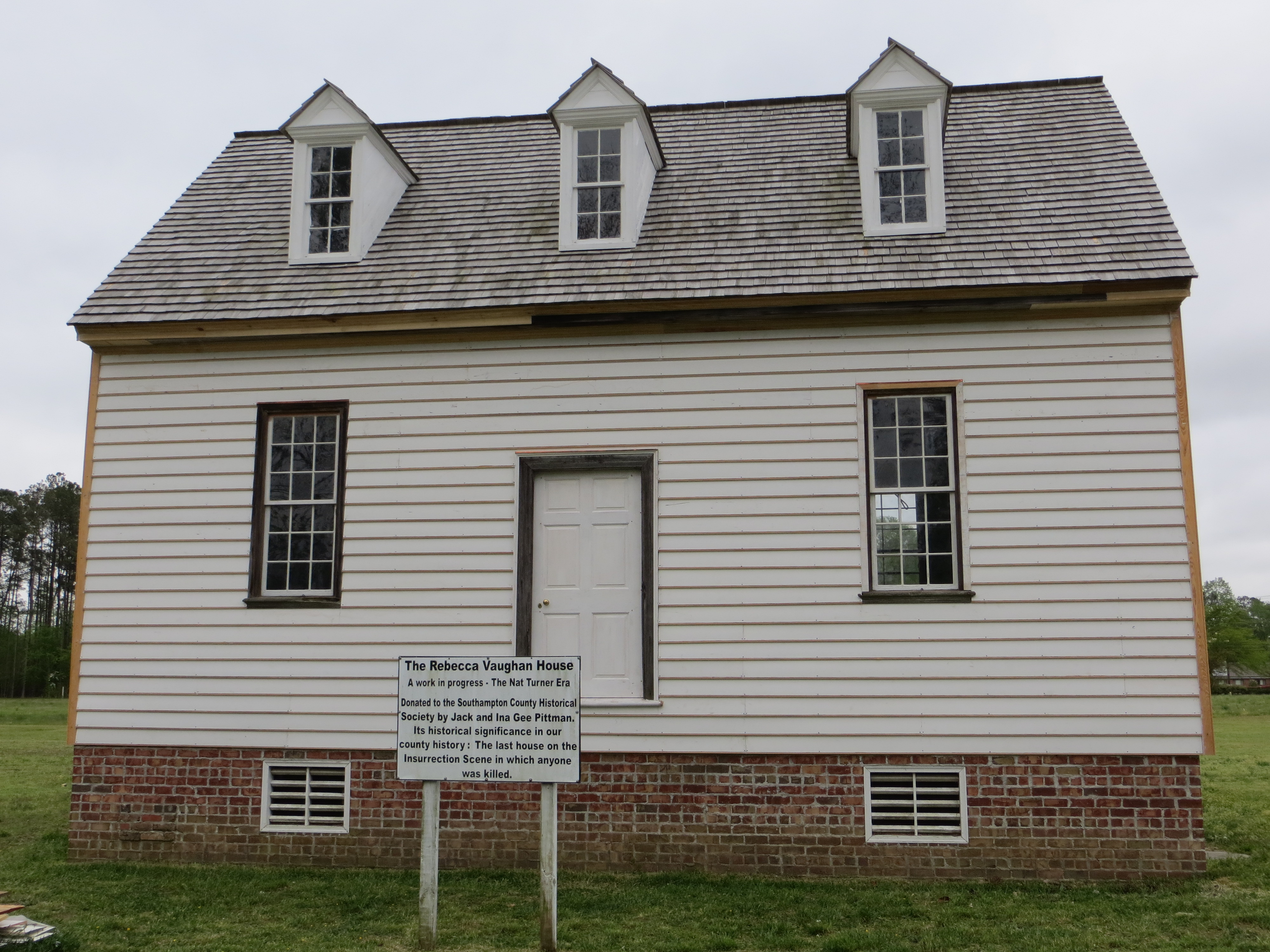 Rebecca Vaughan House, 26315 Heritage Lane, Courtland, Virginia